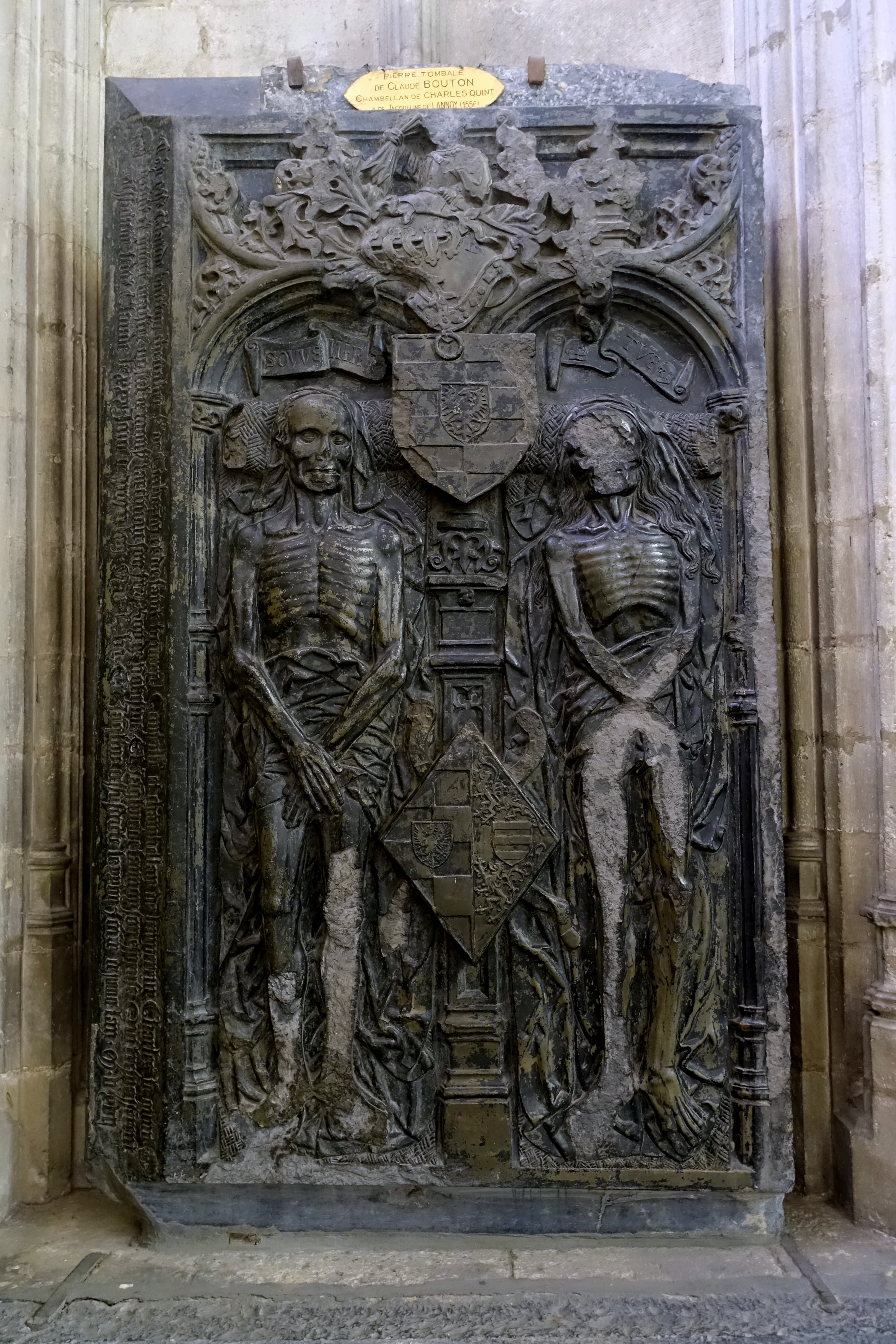 Memorial in the Église Notre-Dame du Sablon - Brussels, Belgium.